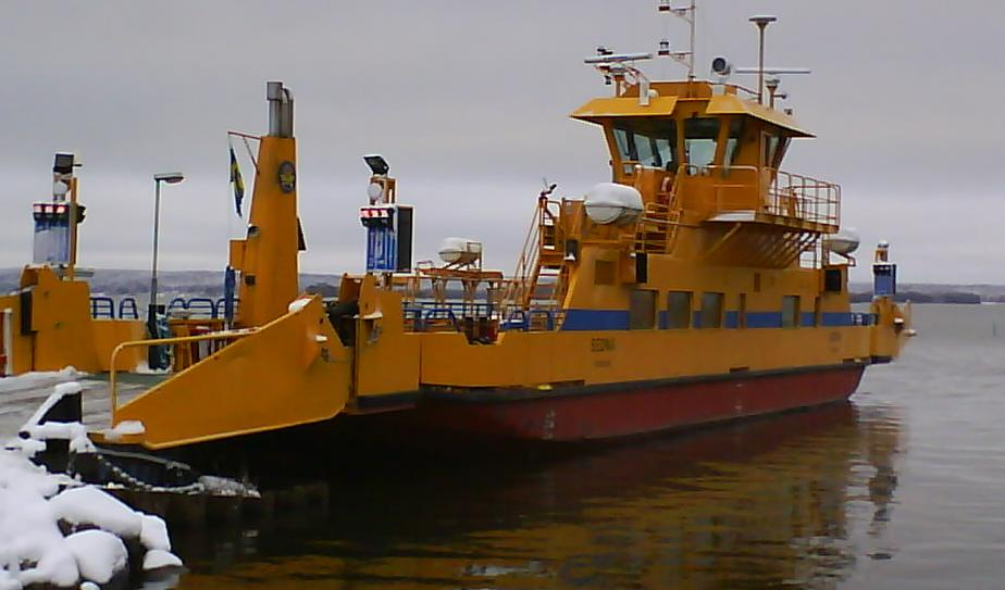 Car Ferry M/S Sedna in lake Hjälmaren, Sweden.